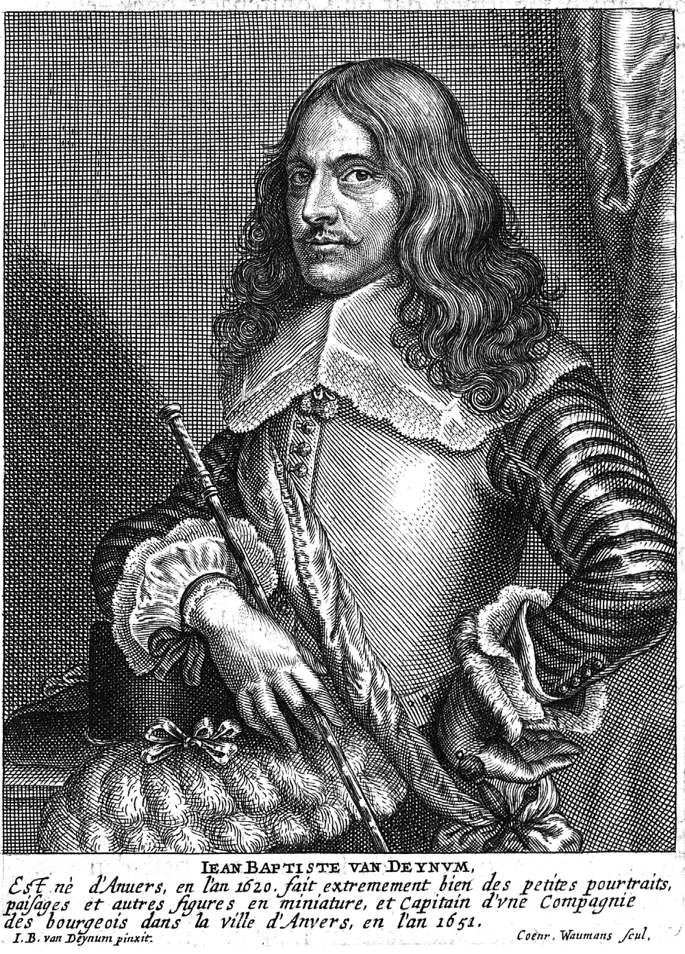 Het Gulden Cabinet, painter biographies by Cornelis de Bie for the Antwerp publisher-engraver Jan Meyssens, 1662 Jan baptist van Deynum p 407